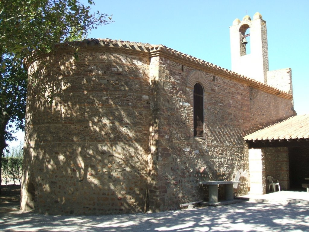 Claira : Saint Peter Chapel (XIth century, partially rebuild afterwards